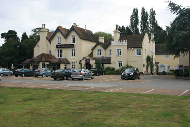 The Worplesdon Place Hotel The Worplesdon Place Hotel is actually a Beefeater restaurant and a Premier Inn. Seen in the Rosemary & Thyme episode "The Gongoozlers" (2004).